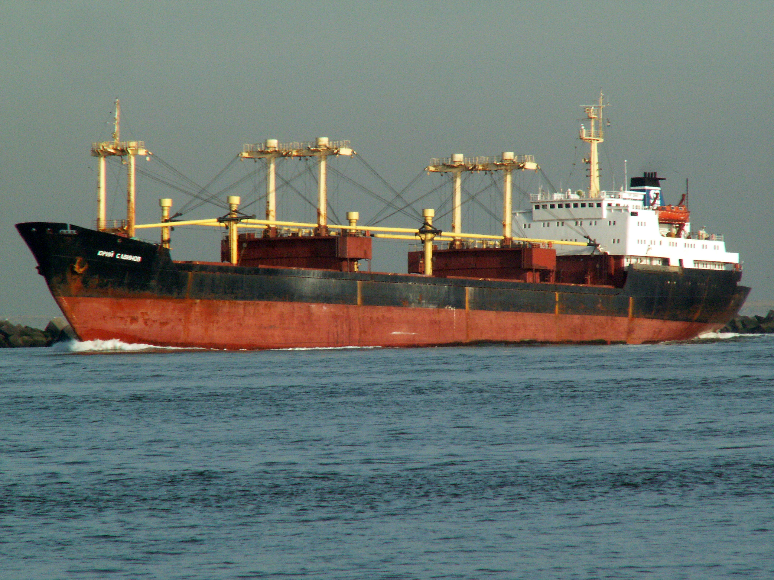 Yuriy Savinov , Port of Rotterdam 24-Jan-2006.